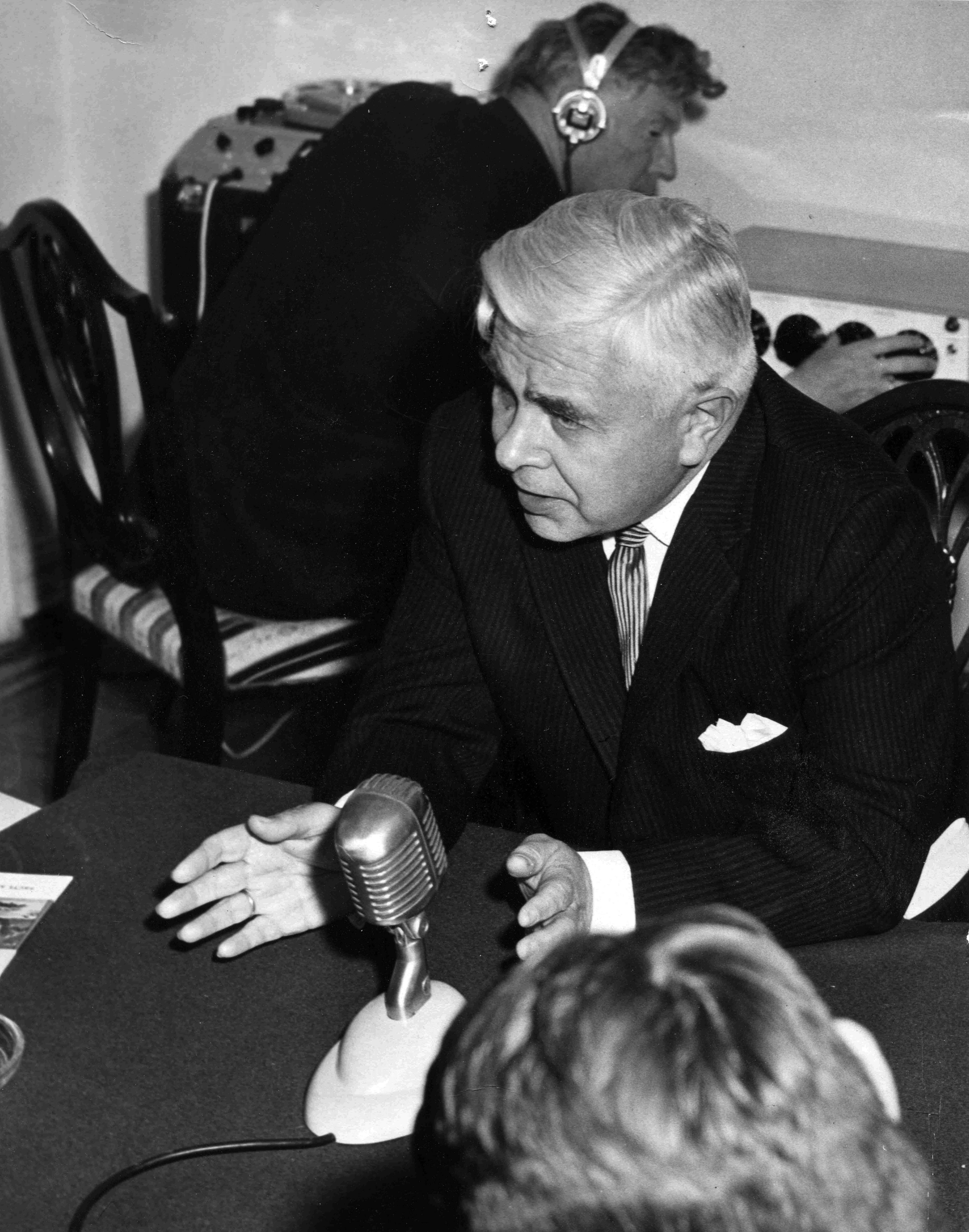 Bjarni Benediktsson prime minister of Iceland announces the decision by Althingi, the parliament, to pass a resolution for Iceland to be a founding member of NATO.